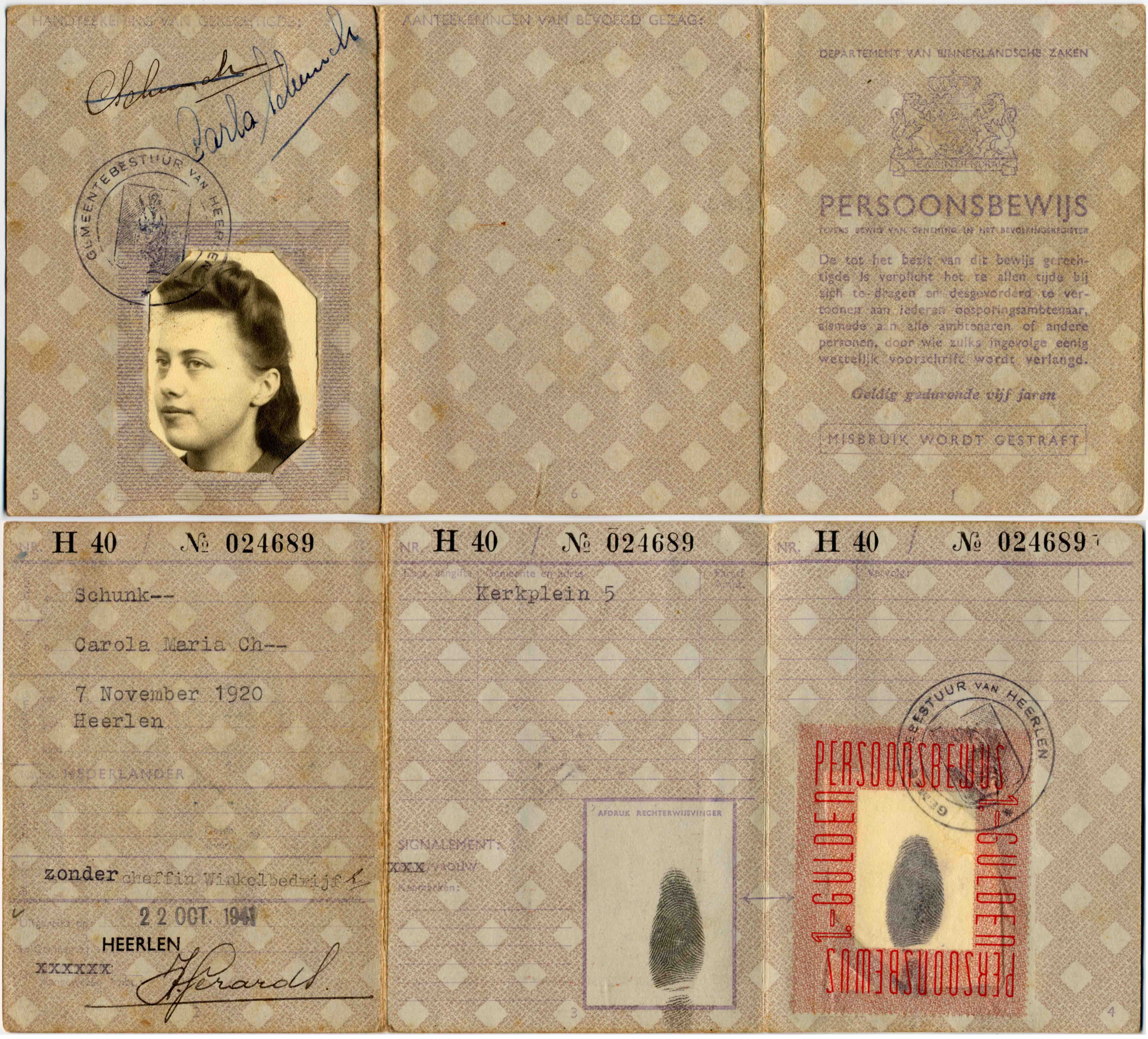 Uploaded by Dirk van der Made (user:DirkvdM). A scan of the Dutch World War II 'persoonbewijs' (Ausweis or identification) of my mother, Carla Schunck. I'm not sure what licence (if any) this might fall under (would the designer dare to claim rights in this case? :) ), but I suppose it's license-free, or at least a matter of fair use. I still have to look into this rather complicated material.